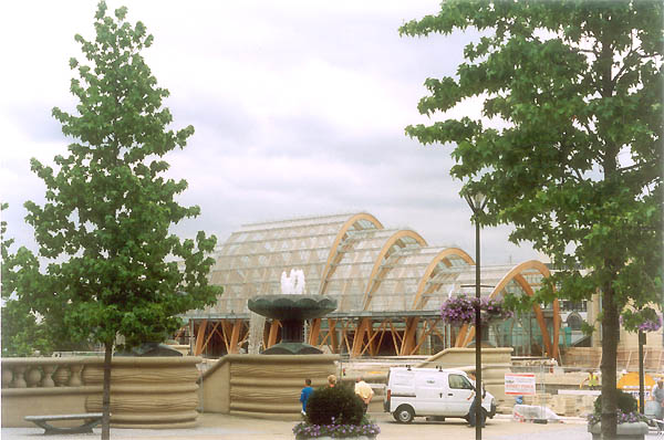 Winter Gardens, Sheffield, Yorkshire, Inglaterra Photo by Wikityke foto: Wikityke